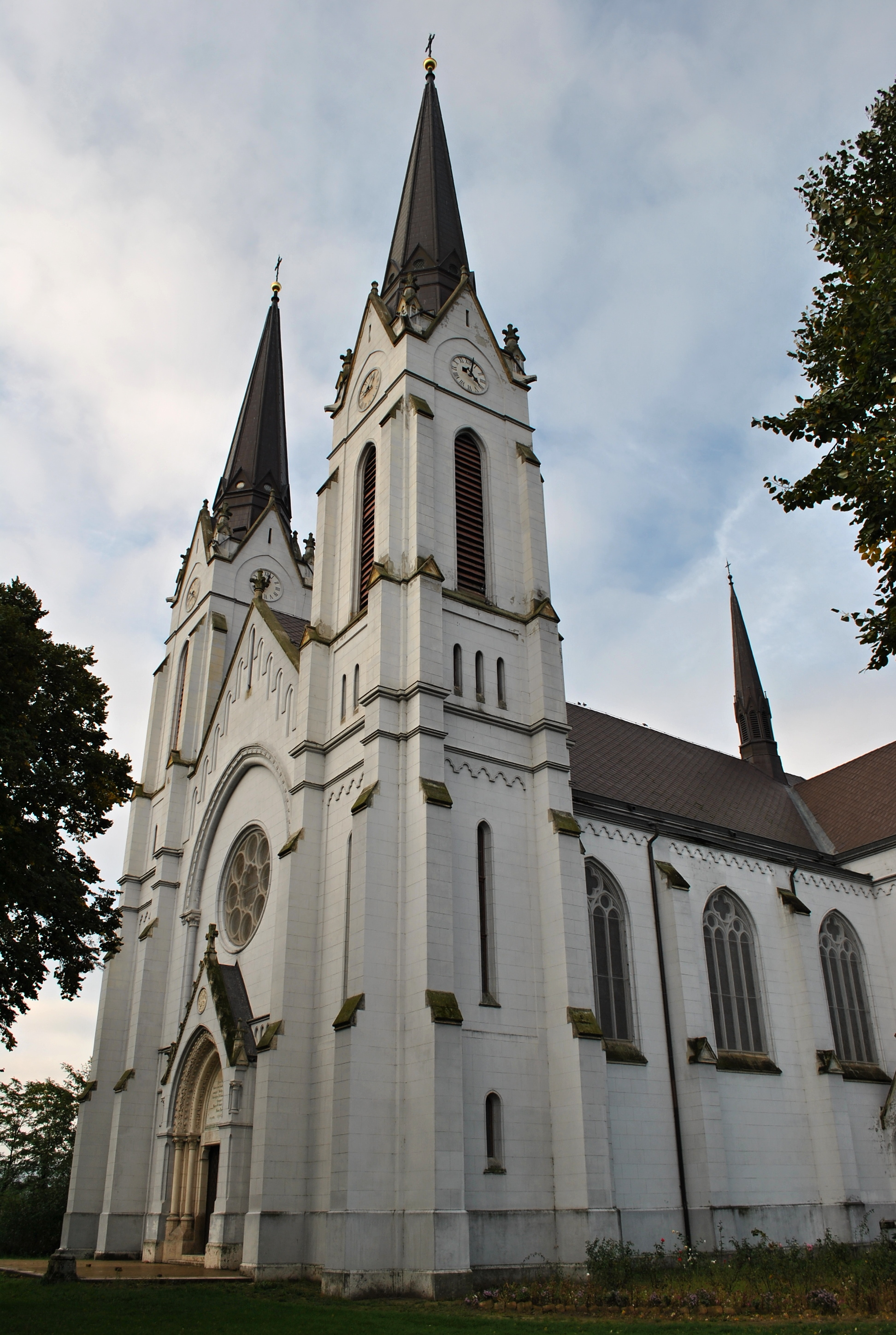 Futog - Serbia - Catholic church, built in the 18th century with re-building in Neo-gothic style in 1907